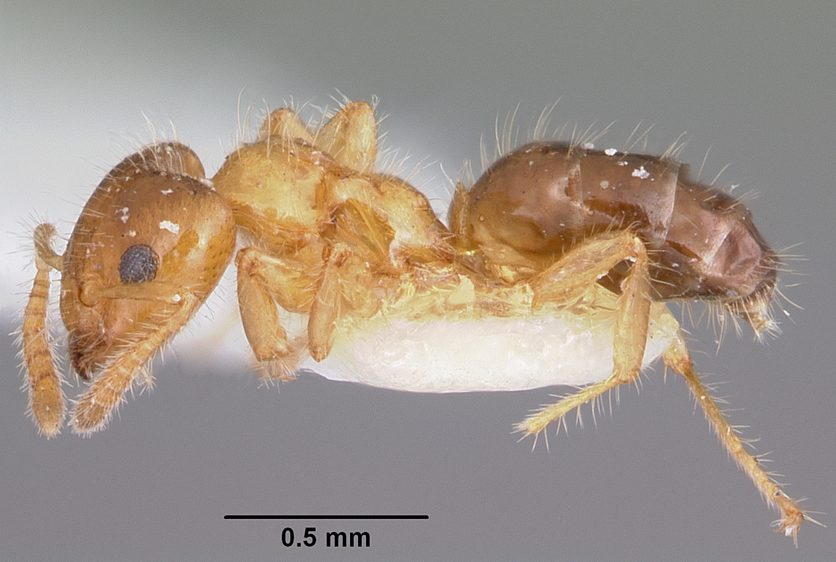 Profile view of ant Petalomyrmex phylax specimen casent0101210.